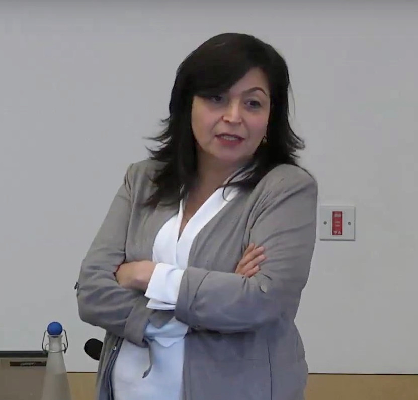 Iranian linguist Mandana Seyfeddinipur talking about Data management in the Endangered Languages Archive, SOAS University of London, 2017